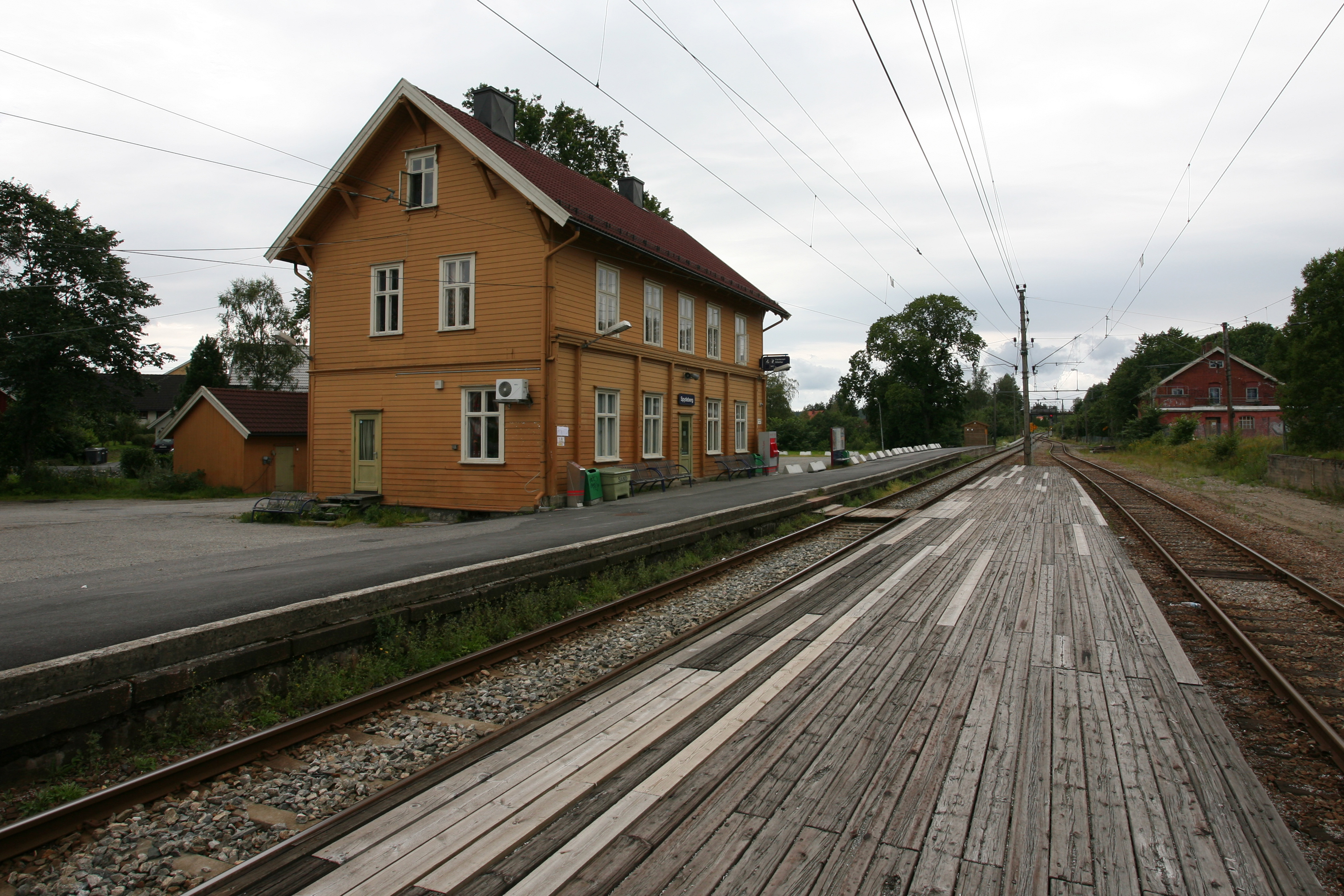 Picture of Spydeberg Railway Station (Norway)